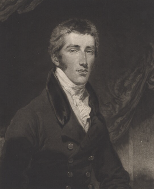 Samuel Charles Whitbread by William Ward, after Henry William Pickersgill, mezzotint, published 1820